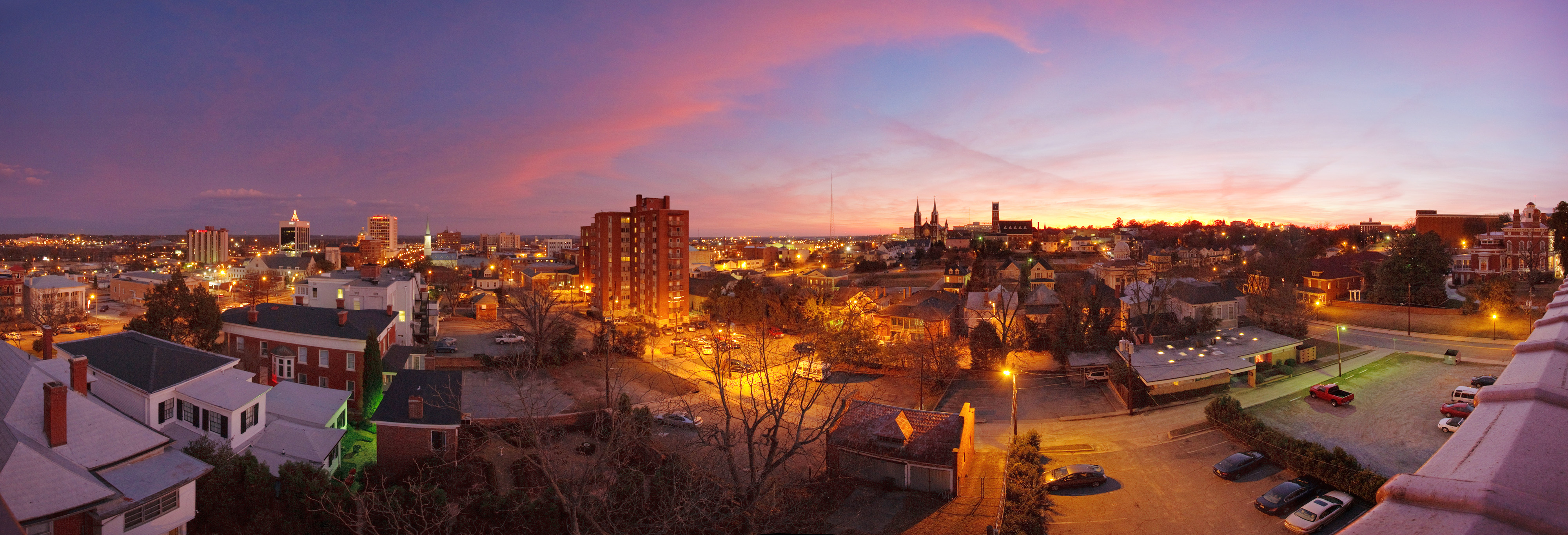 From Terrace apartments on the Corner of Spring St. and Mulberry St. in Downtown Macon.